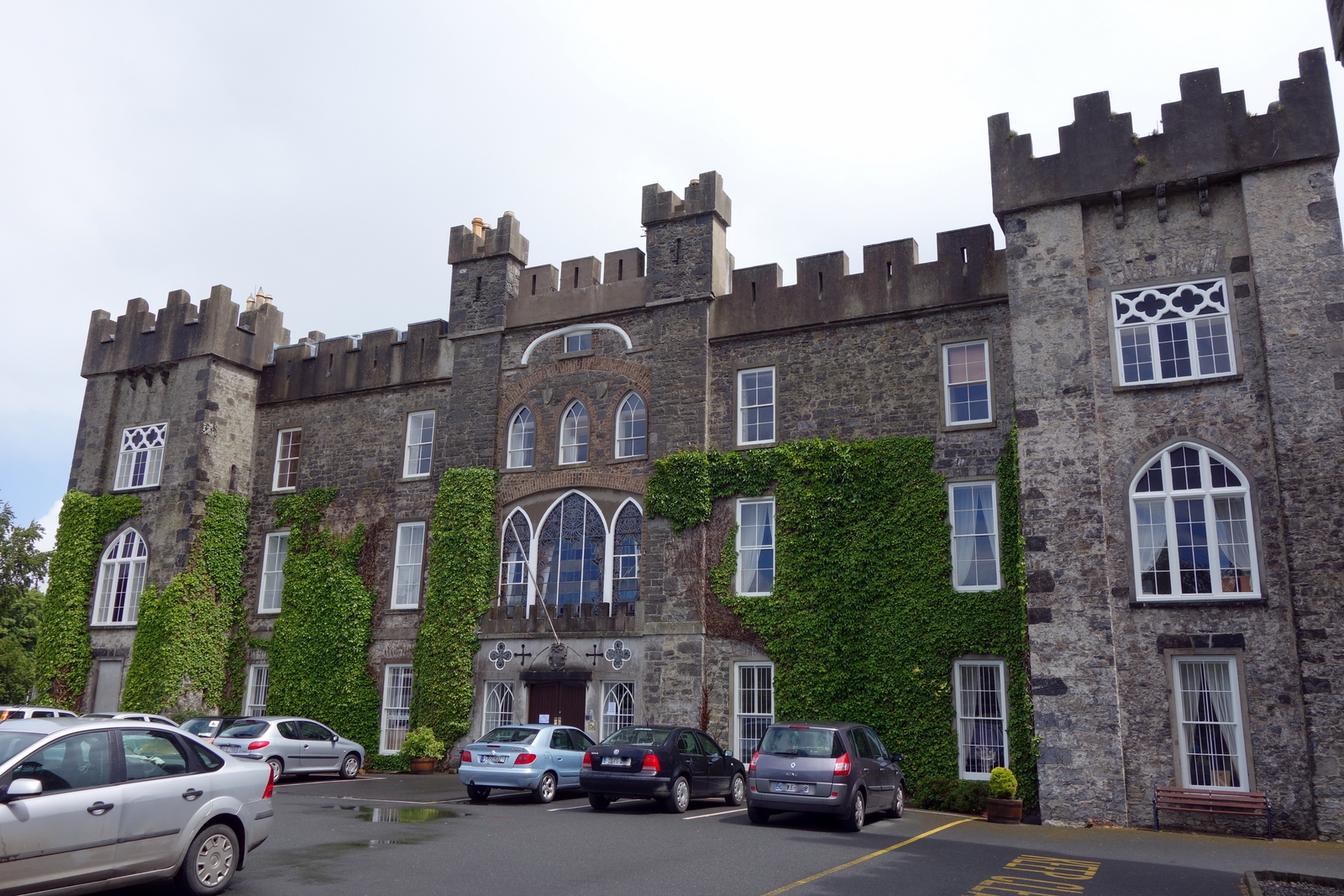 Clongowes Wood College is a voluntary secondary boarding school for boys, located near Clane in County Kildare, Ireland. Founded by the Society of Jesus (Jesuits) in 1814, it is one of Ireland's oldest Catholic schools, and featured prominently in James Joyce's semi-autobiographical novel A Portrait of the Artist as a Young Man. One of five Jesuit schools in Ireland, it had 450 students in 2011/2012 when the fees were €16800 per annum